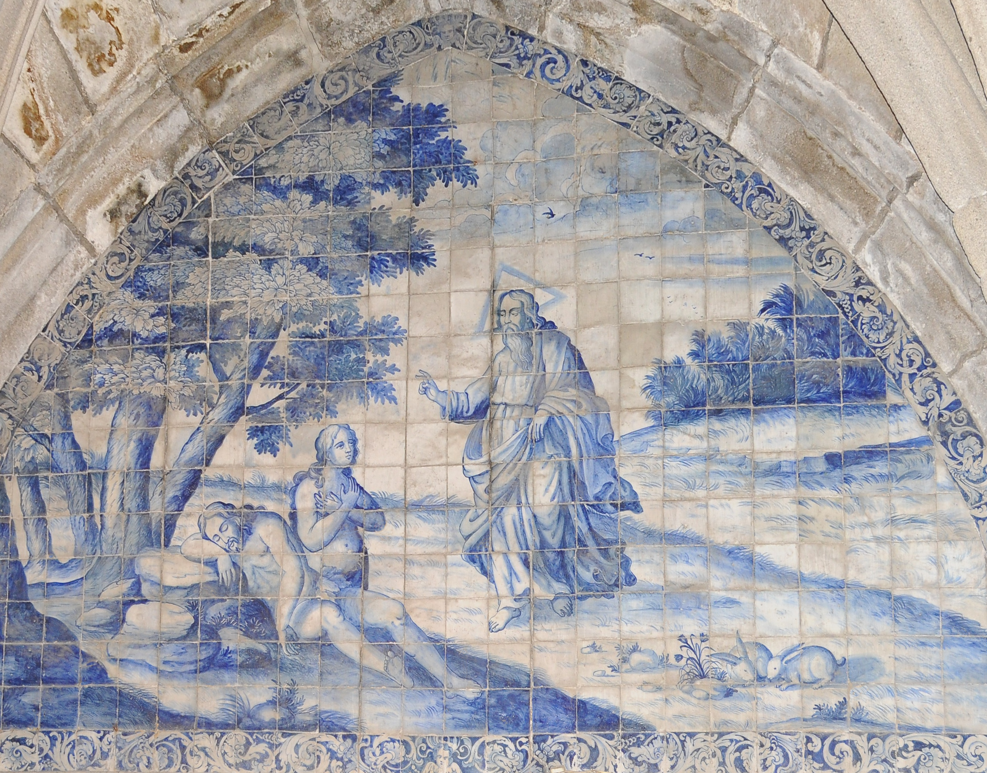 God, Adam and Eve in Azulejos in Coimbras Chapel, Braga, Portugal.